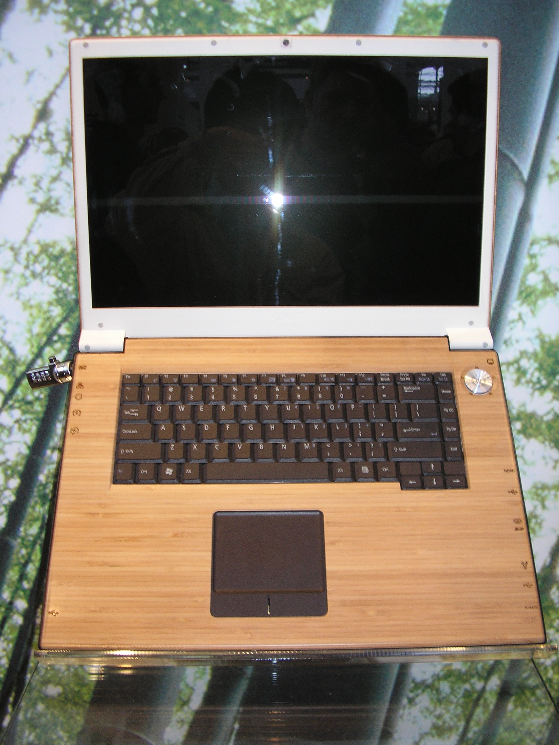 Notebook with Banboo shell from Asus. Showed at CeBIT 2008.